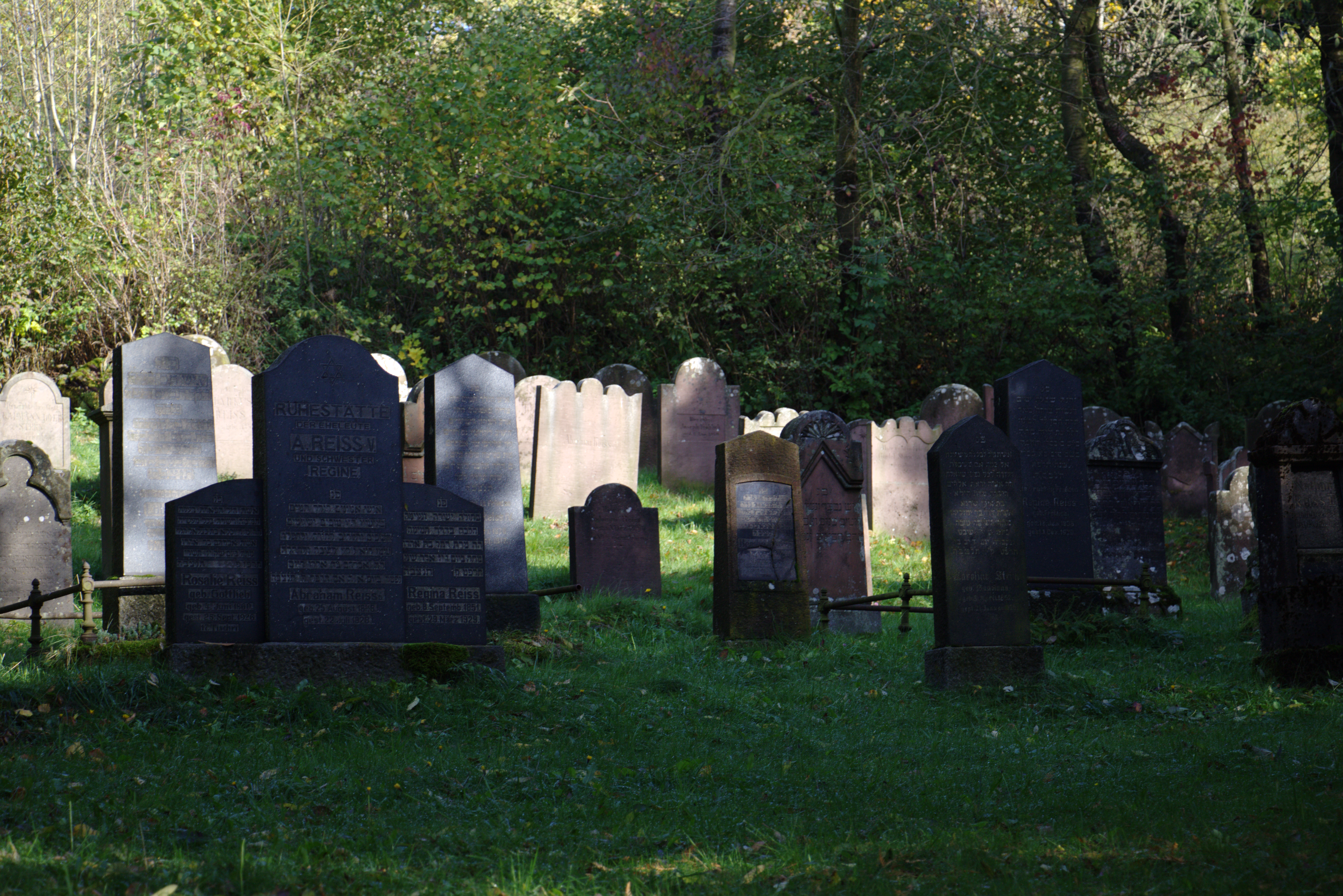 Jewish cemetery in Ulrichstein, Hesse, Germany